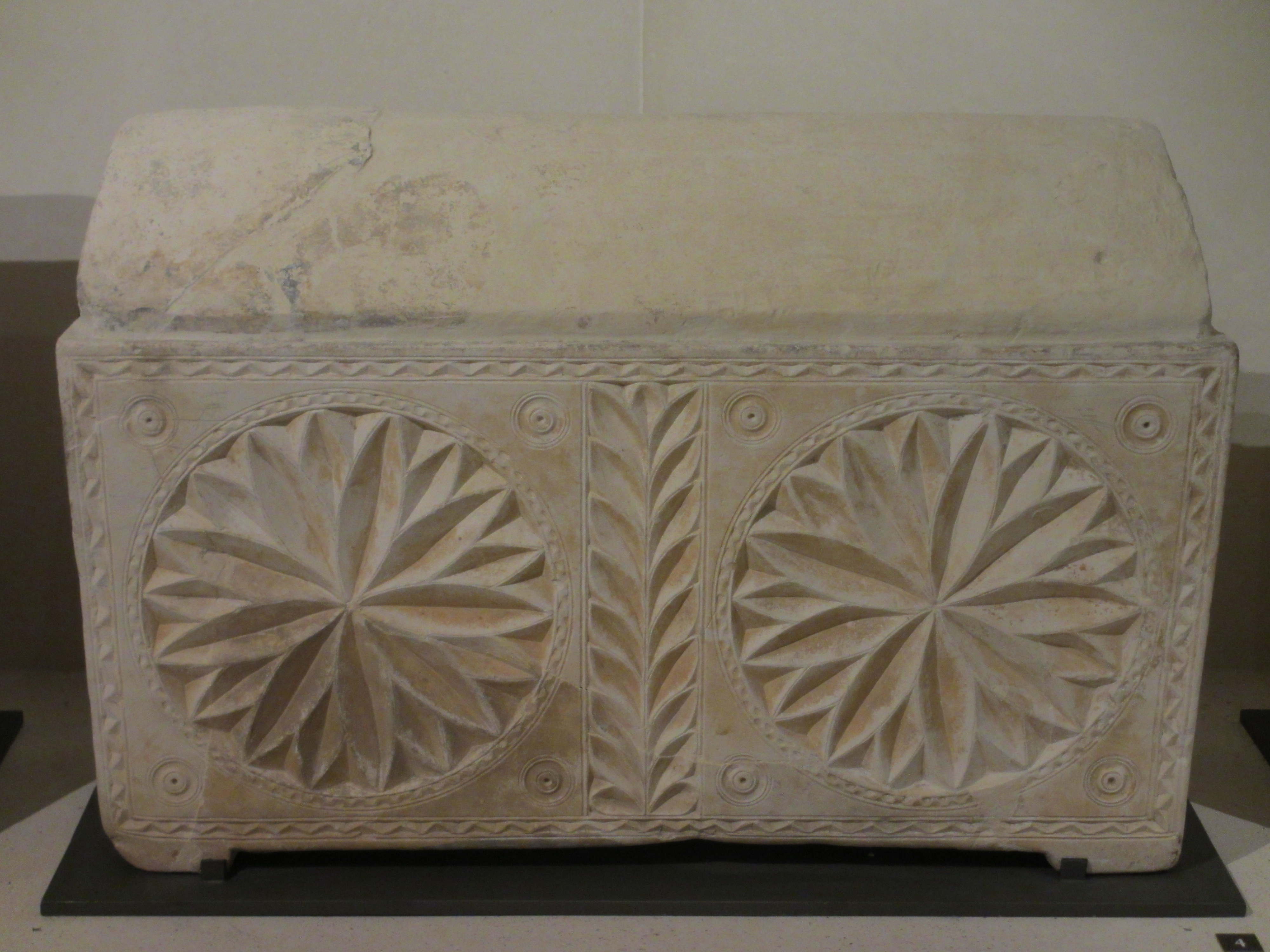 Jewish ossuary discovered in Jersualem (I BCE/I CE). Photographed at Le Louvre, Paris